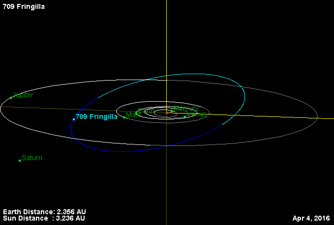 Orbit of asteroid 709 Fringilla and his location in Solar system